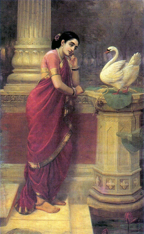 Hamsa Damayanti